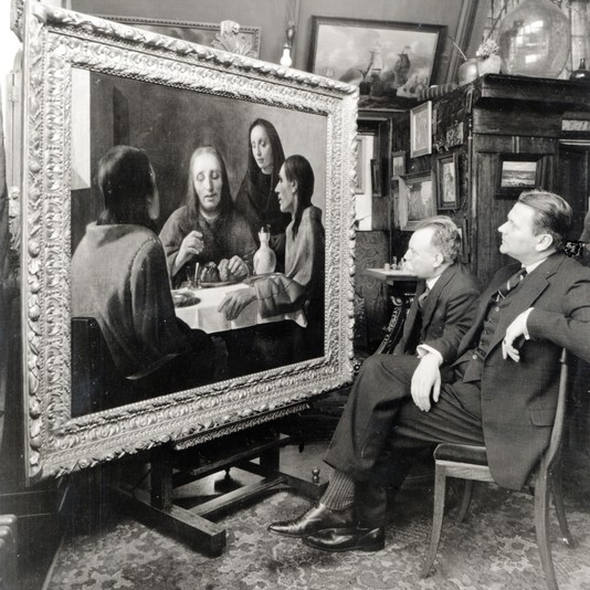 Directeur Hannema van Boijmans Van Beuningen en restaurateur Luitwieler voor Van Meegerens “De Emmausgangers”, in de veronderstelling dat het een Vermeer betrof